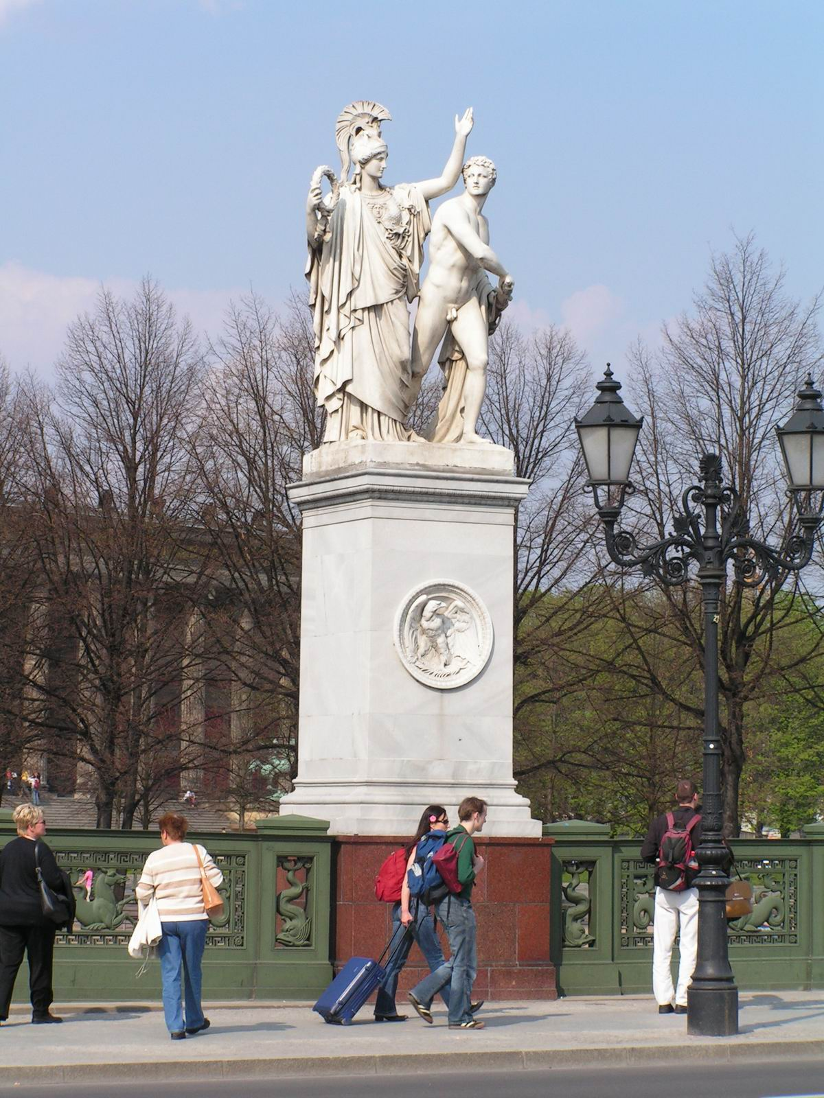 Schlossbrücke in Berlin-Mitte: Athena leads the young warrior into the fight (Pallas Athene führt den jungen Krieger in den Kampf) by Albert Wolff, 1853